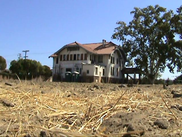 A view of the Wolfe Manor in Clovis, CA